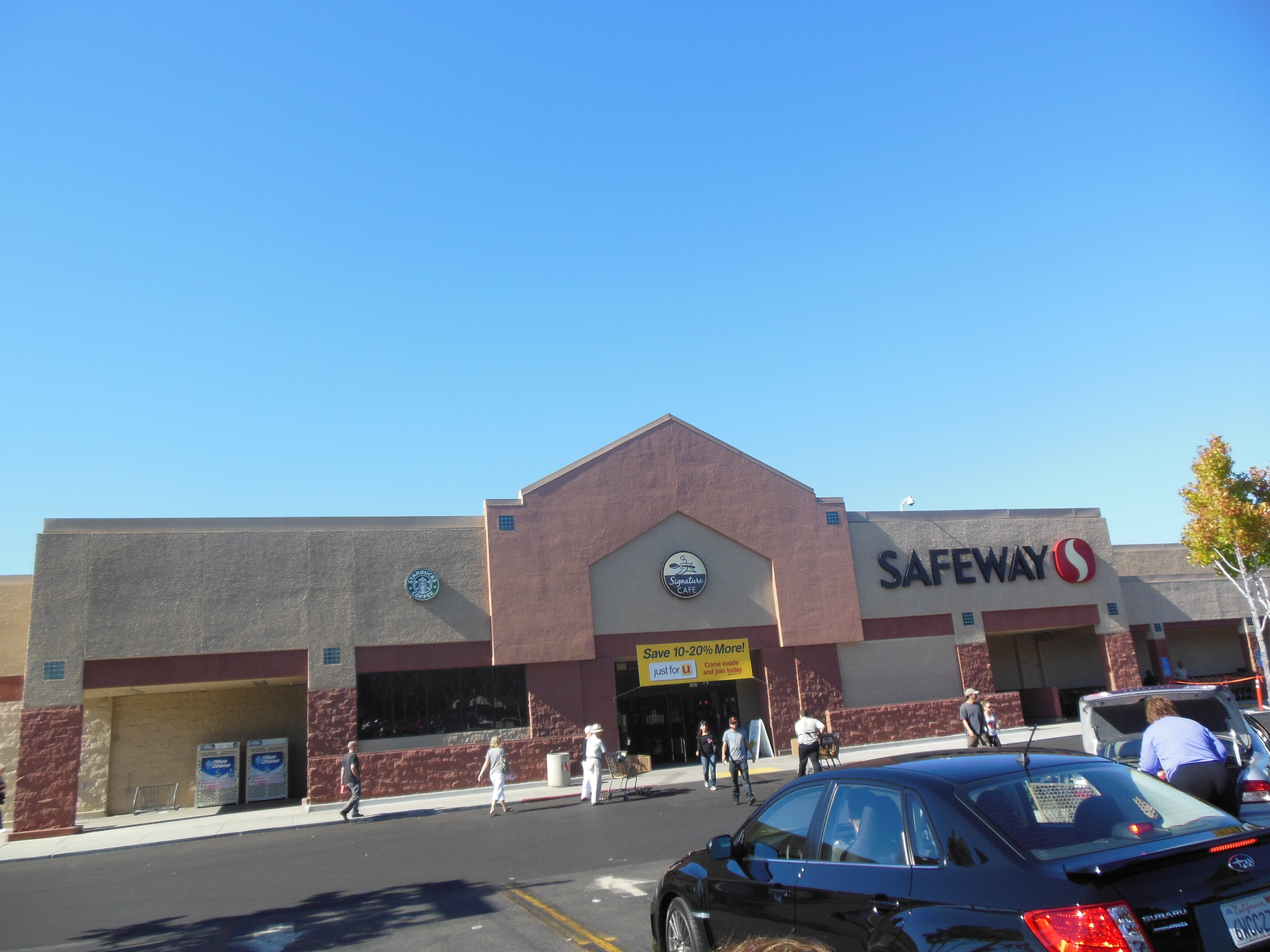 Safeway